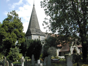 Church of England parish church of St Andrew, Clewer, Berkshire.